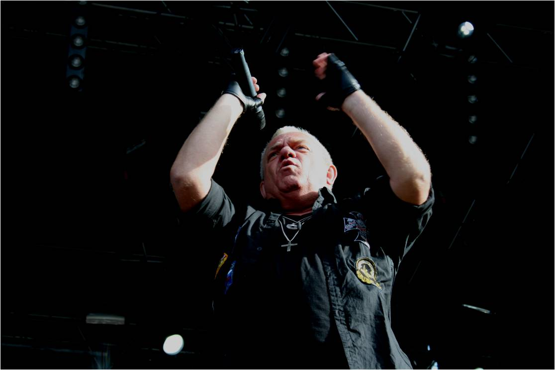 UDO at Norway Rock Festival 2010